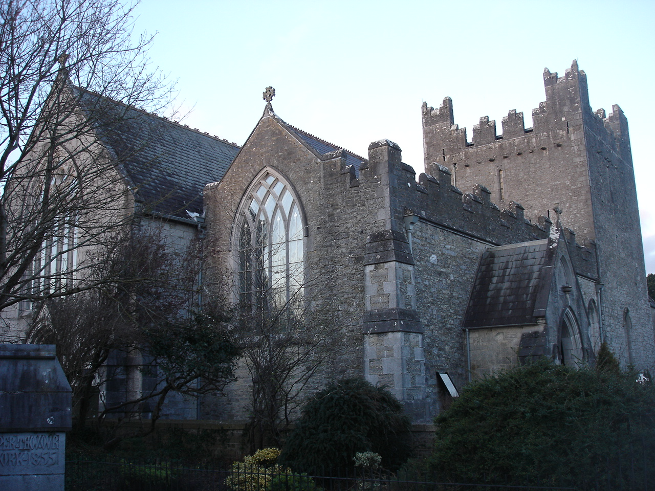 Adare trinitarian monastery , Co. Limerick , Ireland